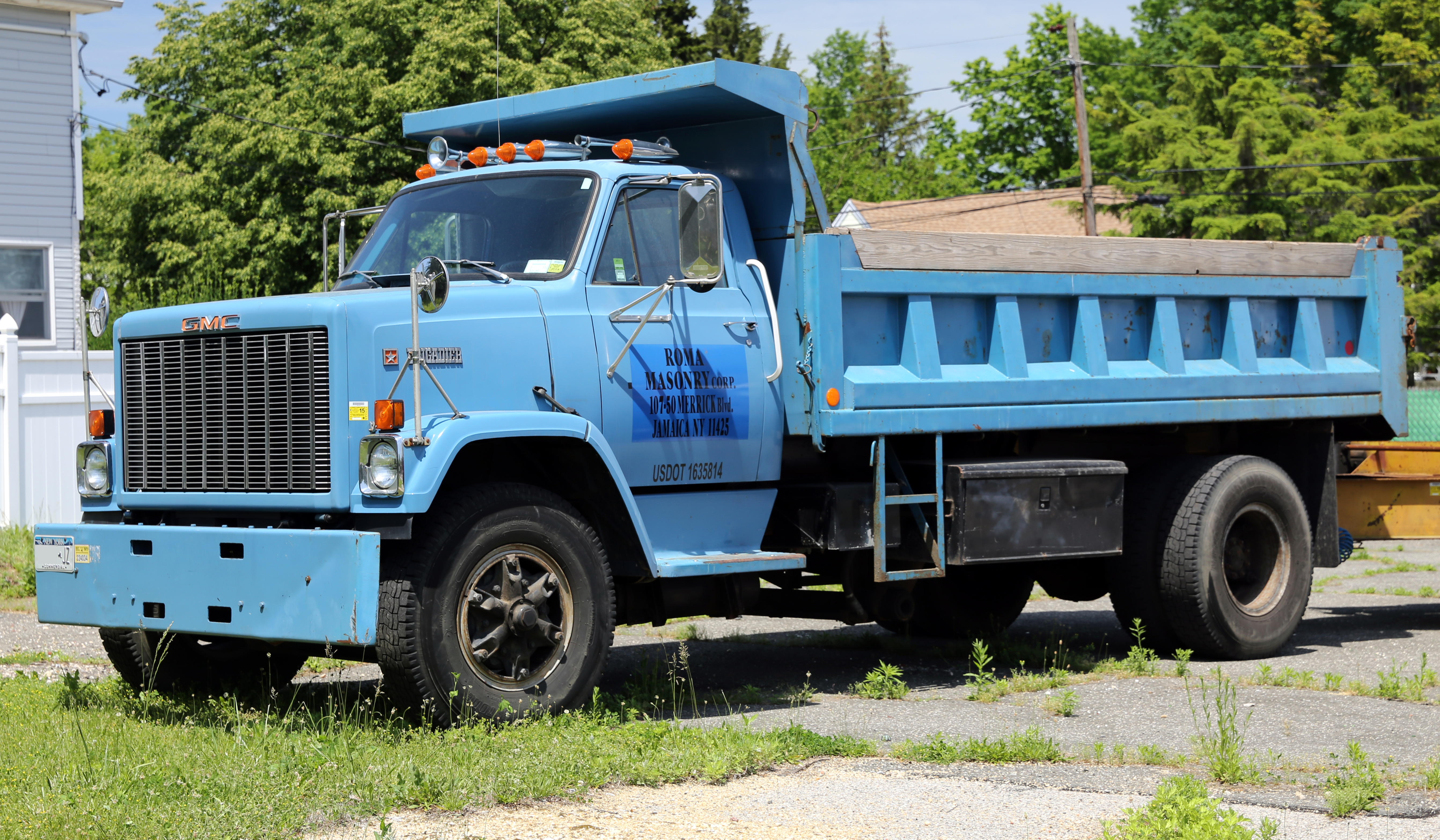 1986 GMC Brigadier 8000-series 4x2 Heavy Duty truck. This has a conventional steel cab (92.5" BBC) and was delivered as a naked chassis; currently running as a dump truck. 26-33,000 lb rating and fitted with air brakes. Built in the Pontiac, MI truck and bus plant, it is equipped with a 636 cu in (10.4 L) Caterpillar 3208 diesel V8 engine.